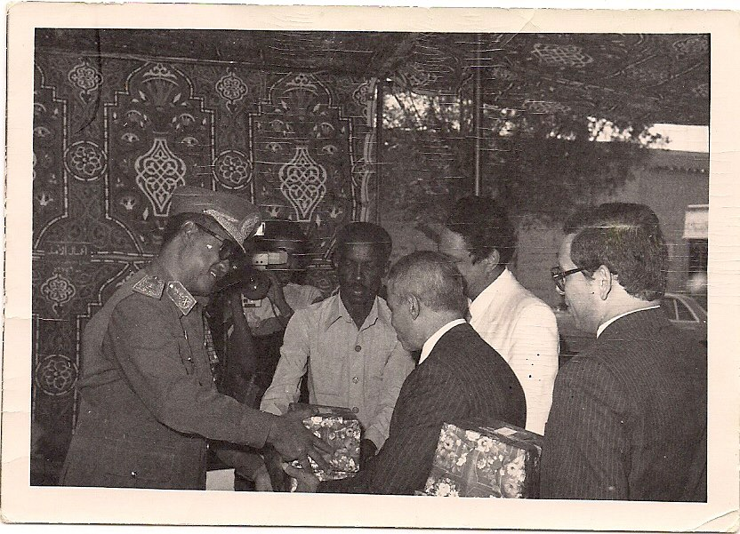 This was captured in the opening ceremony of Eldar